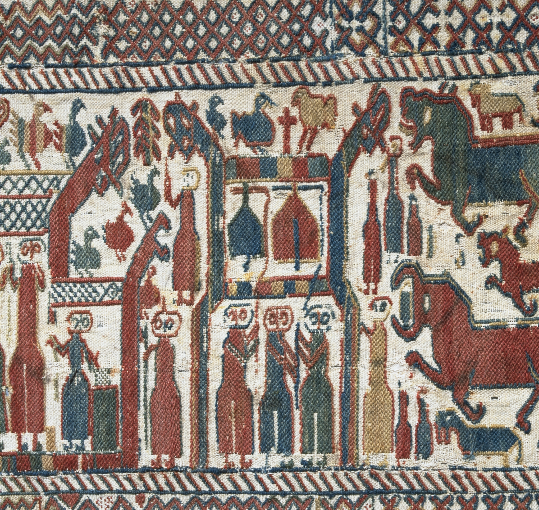 Skogbonaden.